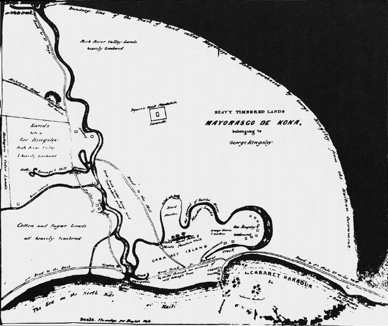 Map of Mayorasgo de Koka, on the northern coast of Haiti, now part of the Dominican Republic. The map itself says: "Mayorasgo de Koka, belonging to George Kingsley." Drawn by Zephaniah Kingsley